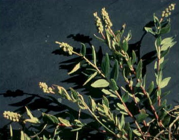 Polygala senega This image is in the public domain in the United States because it only contains materials that originally came from the United States Geological Survey, an agency of the United States Department of the Interior. For more information, see the official USGS copyright policy.